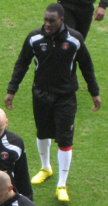 Lloyd Sam warming up against Millwall.